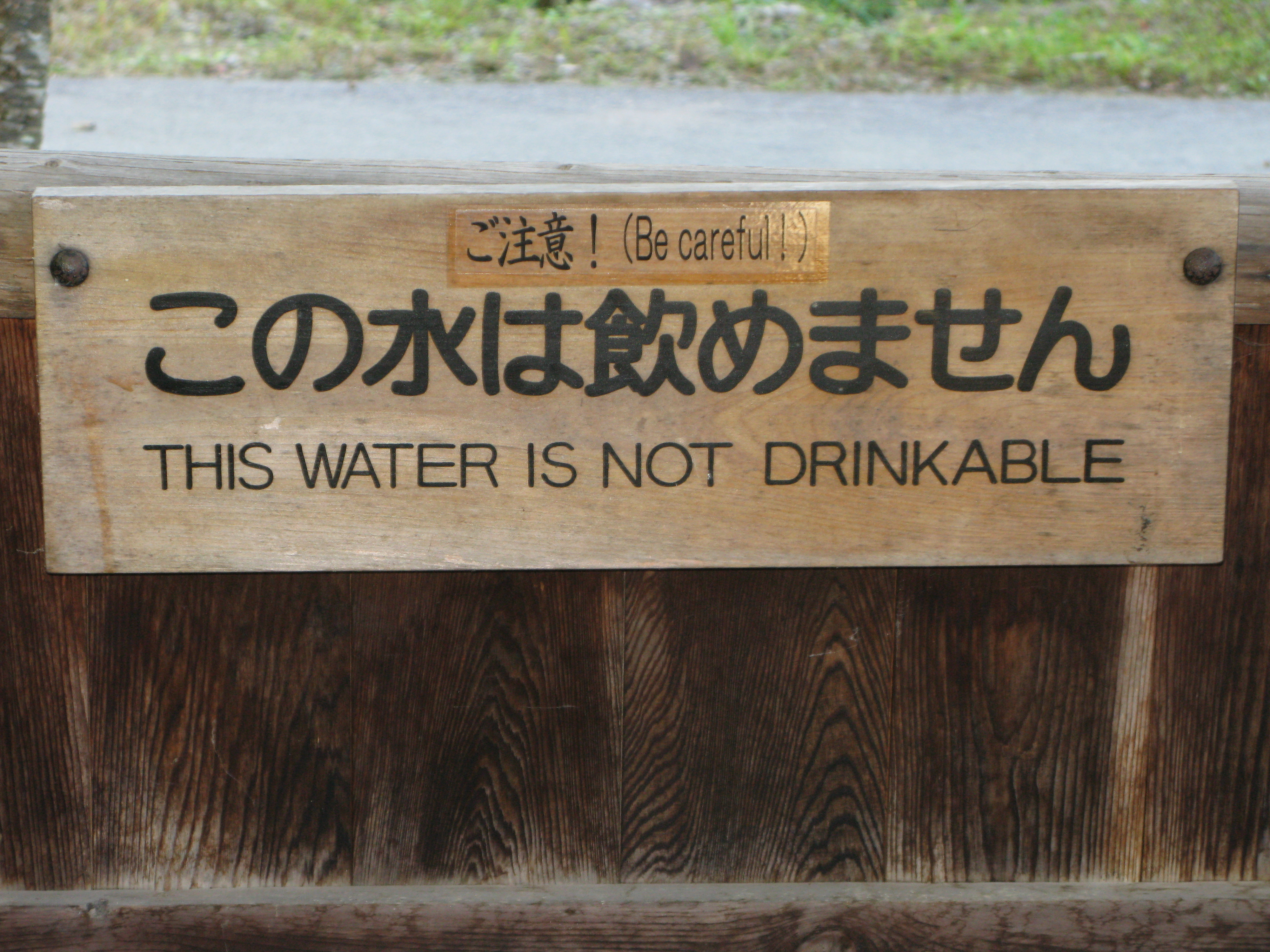 A Japanese caution sign for the undrinkable water.